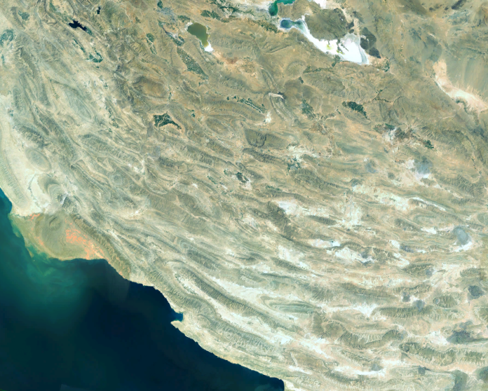 Screenshot from NASA Wold Wind of the Fars domain of the Zagros fold-thrust belt